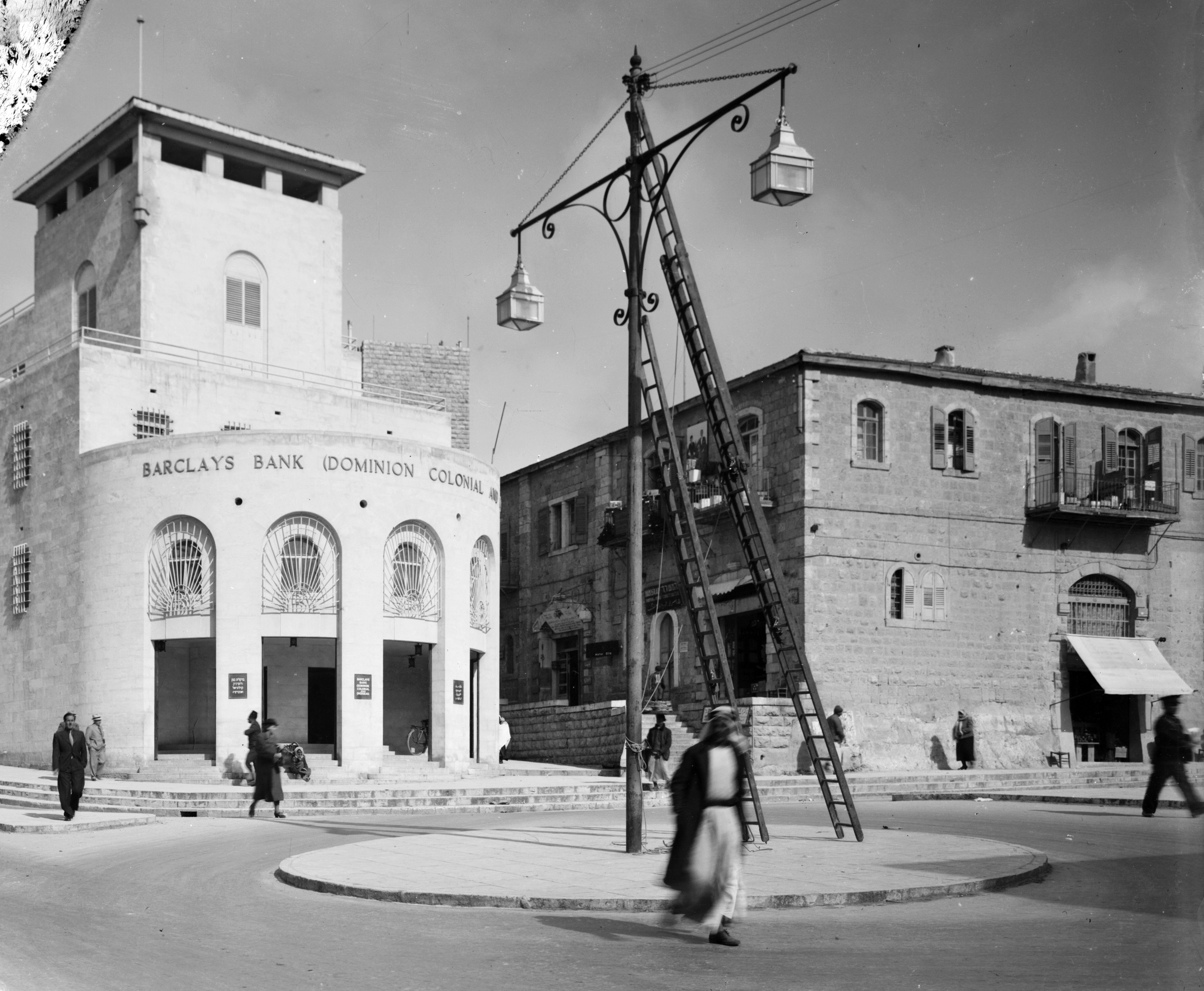 Barclay's from across square-ladder to high lamppost in center of sq.